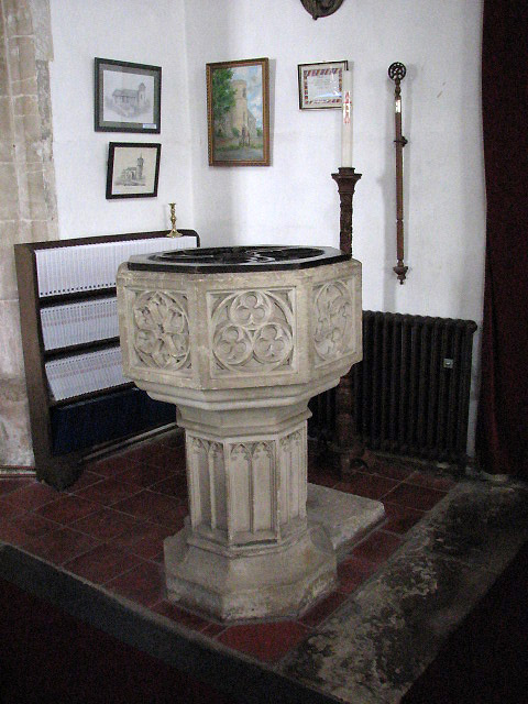 St Mary's church - baptismal font According to the Domesday Book there was a church in Watton before 1086. Originally dedicated to St Giles, the church was rededicated to St Mary in the early 15th century. Because of additions during the 19th century, St Mary's presently is the only Norfolk church that is wider than it is long. The first stage of the round tower is the original Saxon/Norman tower; the octagonal top with four windows was added during the 13th or 14th century. The baptismal font is made from Caen stone and has a cover made of oak. The poor box mounted on the wall is unique: according to tradition it depicts William Forster, a former vicar (from 1632-1660). The church is open on three mornings during the week; a key is readily available when locked.